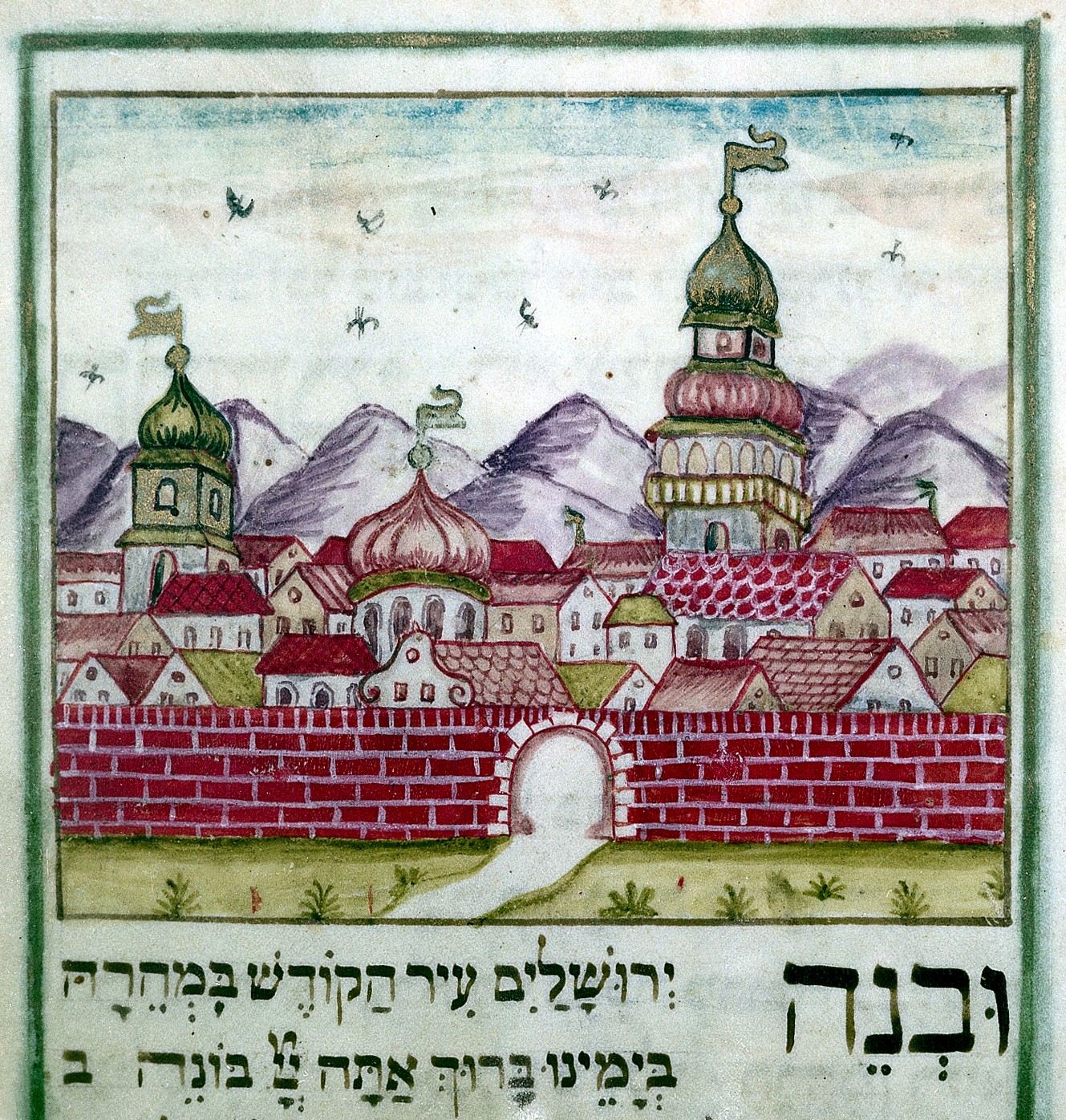 View of Jerusalem. Archives & Manuscripts